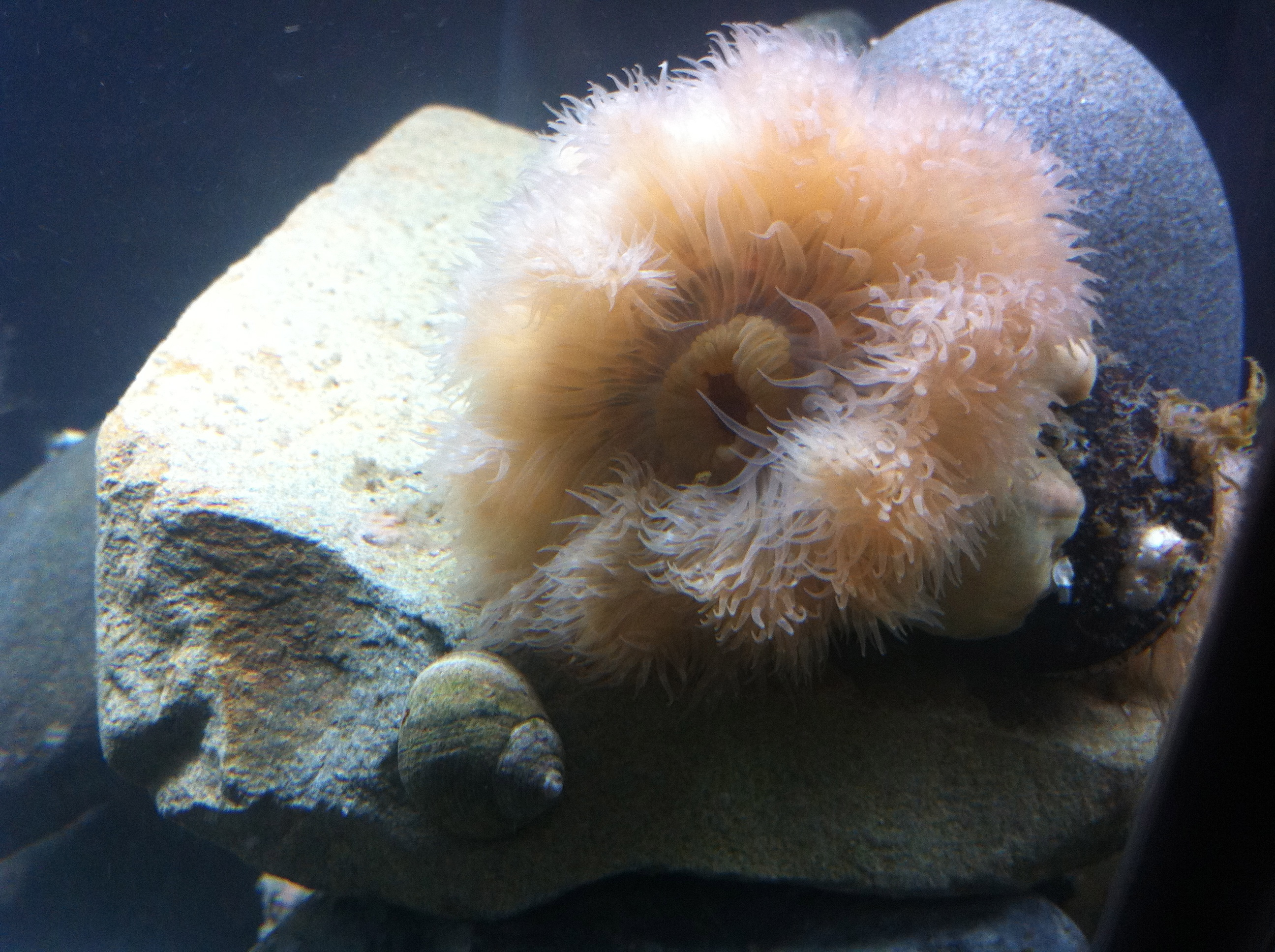 Filled Anemone at Maria Mitchell Aquarium